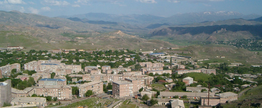 Yeghegnadzor, Armenia